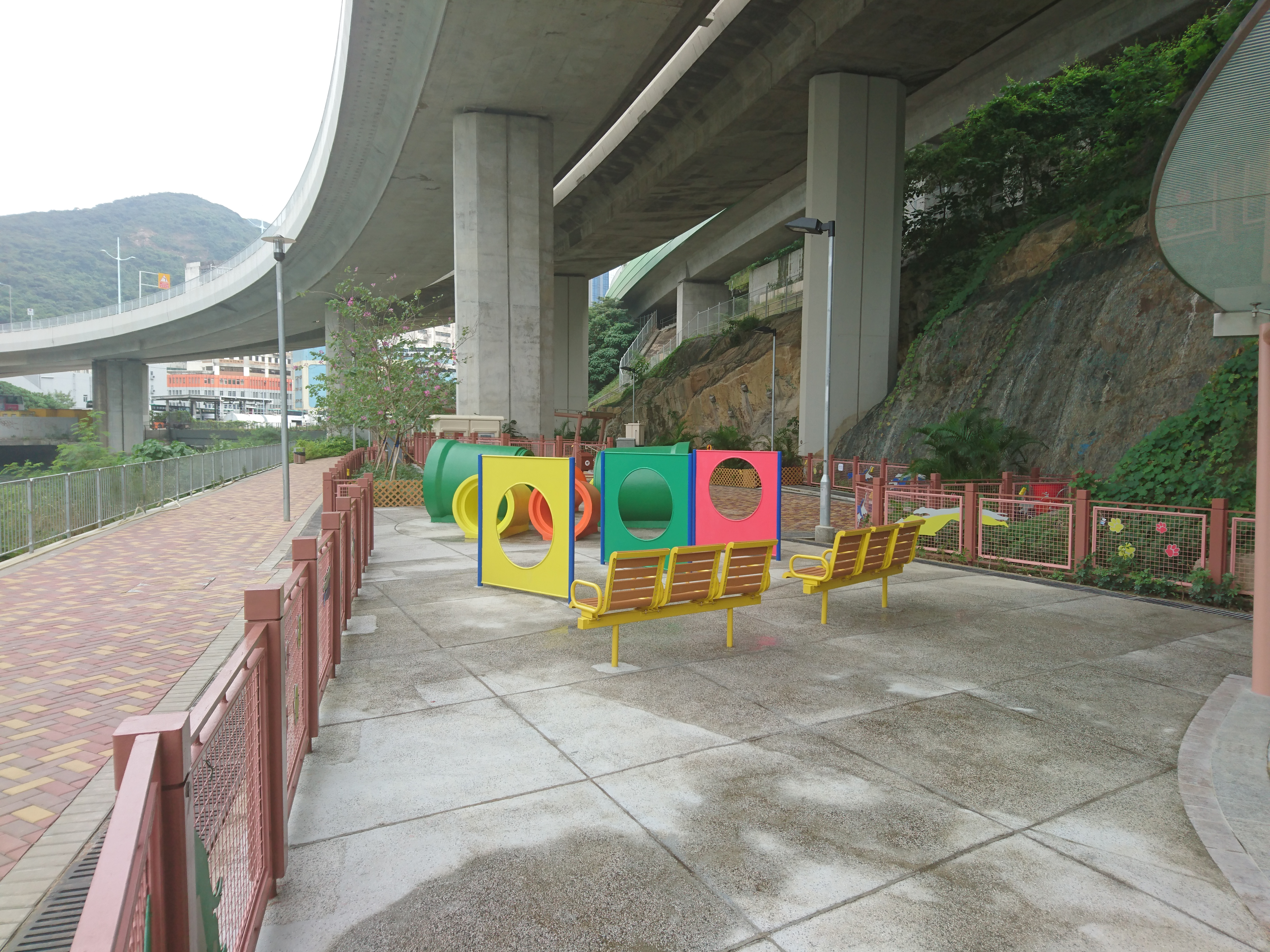 Wong Chuk Hang Chung Mei Pet Garden